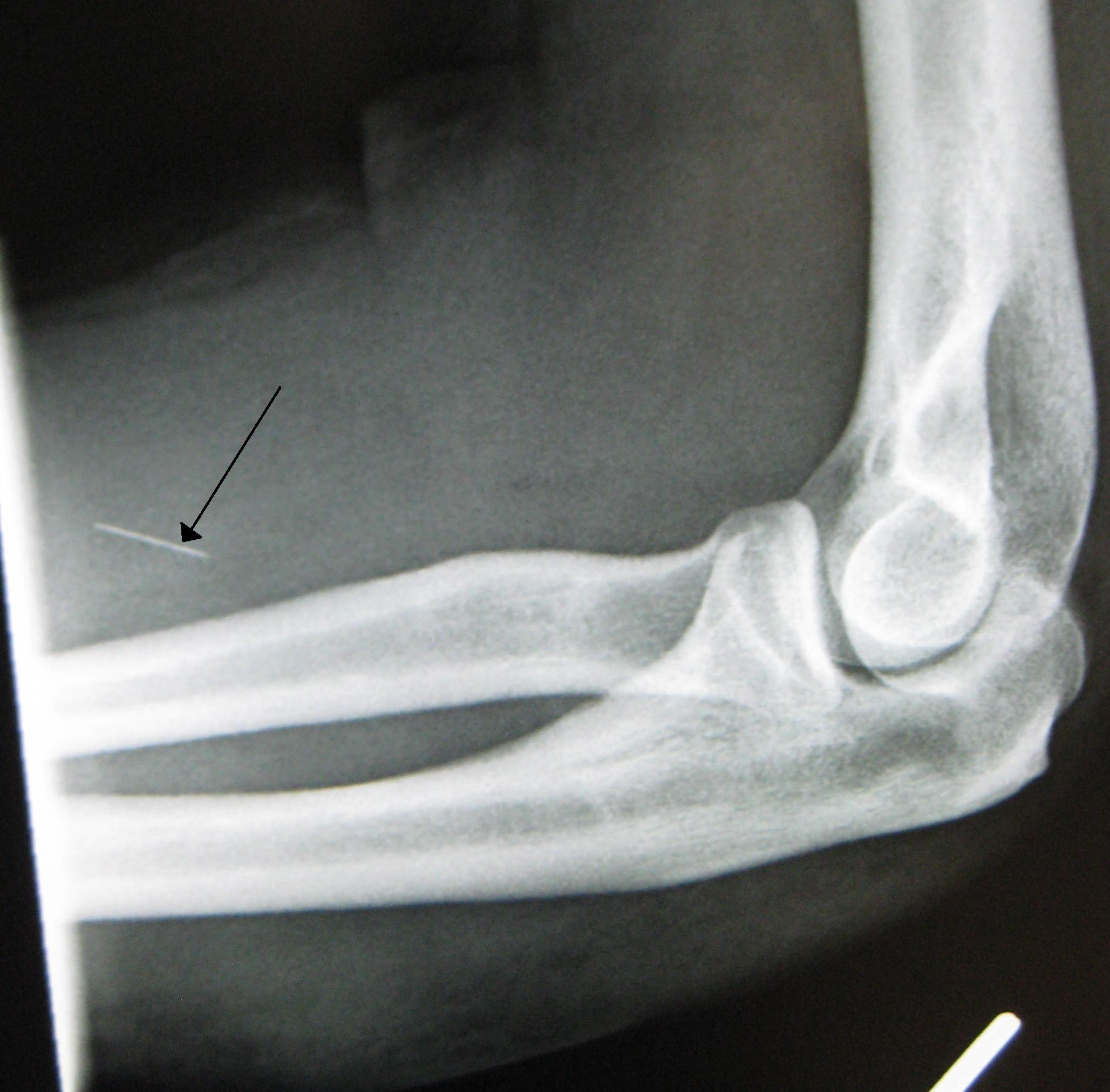 An hypodermic needle in the arm of a person who has used intravenous drugs.